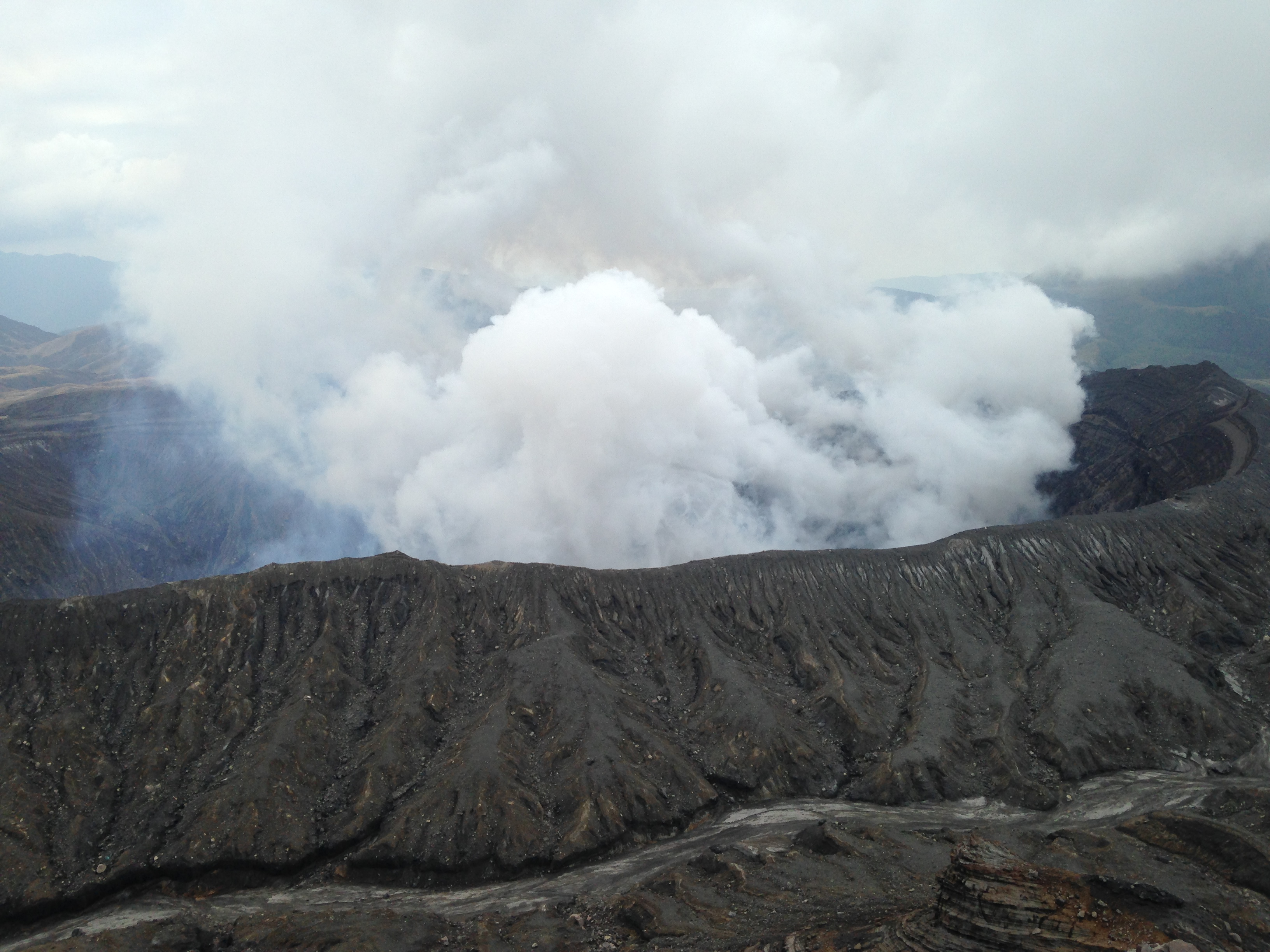 Aso (Japan)